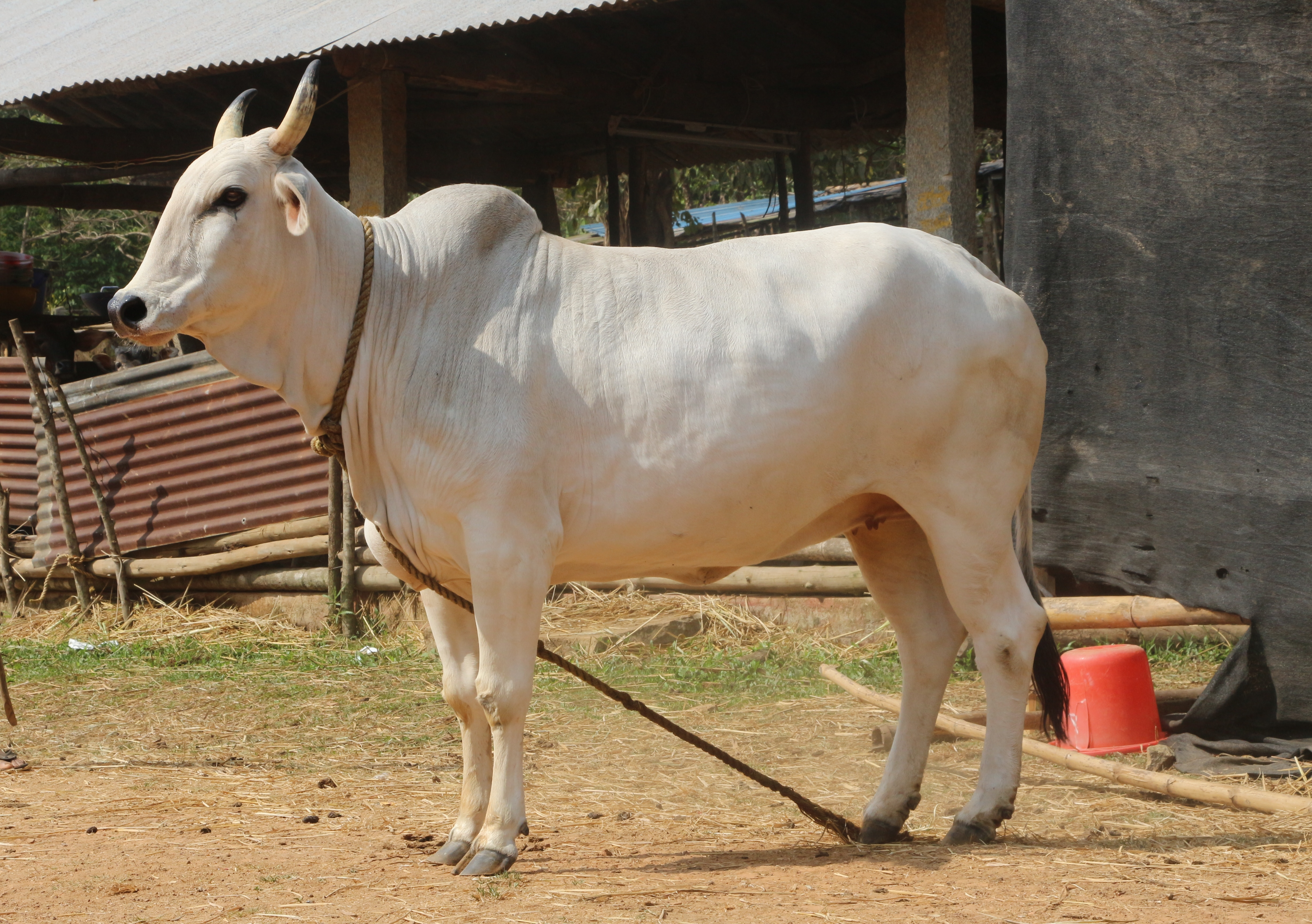 Indian cow breed Gangatiri ಕನ್ನಡ: ಭಾರತೀಯ ಗೋತಳಿ ಗಂಗಾತಿರಿ